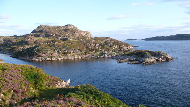 Eilean Tigh Separated from the North end of Raasay by a narrow channel which can be easily crossed at low tide. This channel is a fine place to watch for otters and they obliged again on this trip.